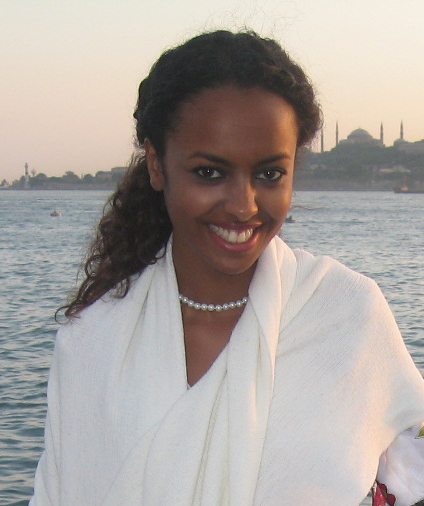 Tuğçe GüderTürkçe: Model Tuğçe Güder